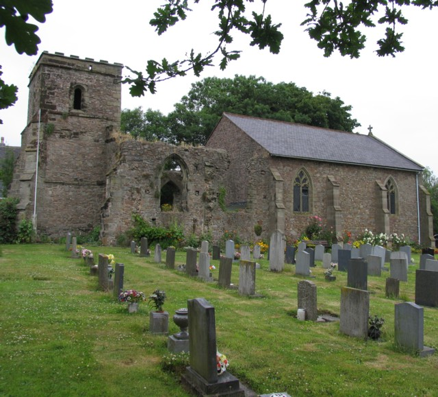 St Mary Elmesthorpe. The church was partially rebuilt in 1868 after the building fell into a ruined state. There is single bell in the tower which does not make for impressive peals at weddings. Grade 2 listing details to be found at